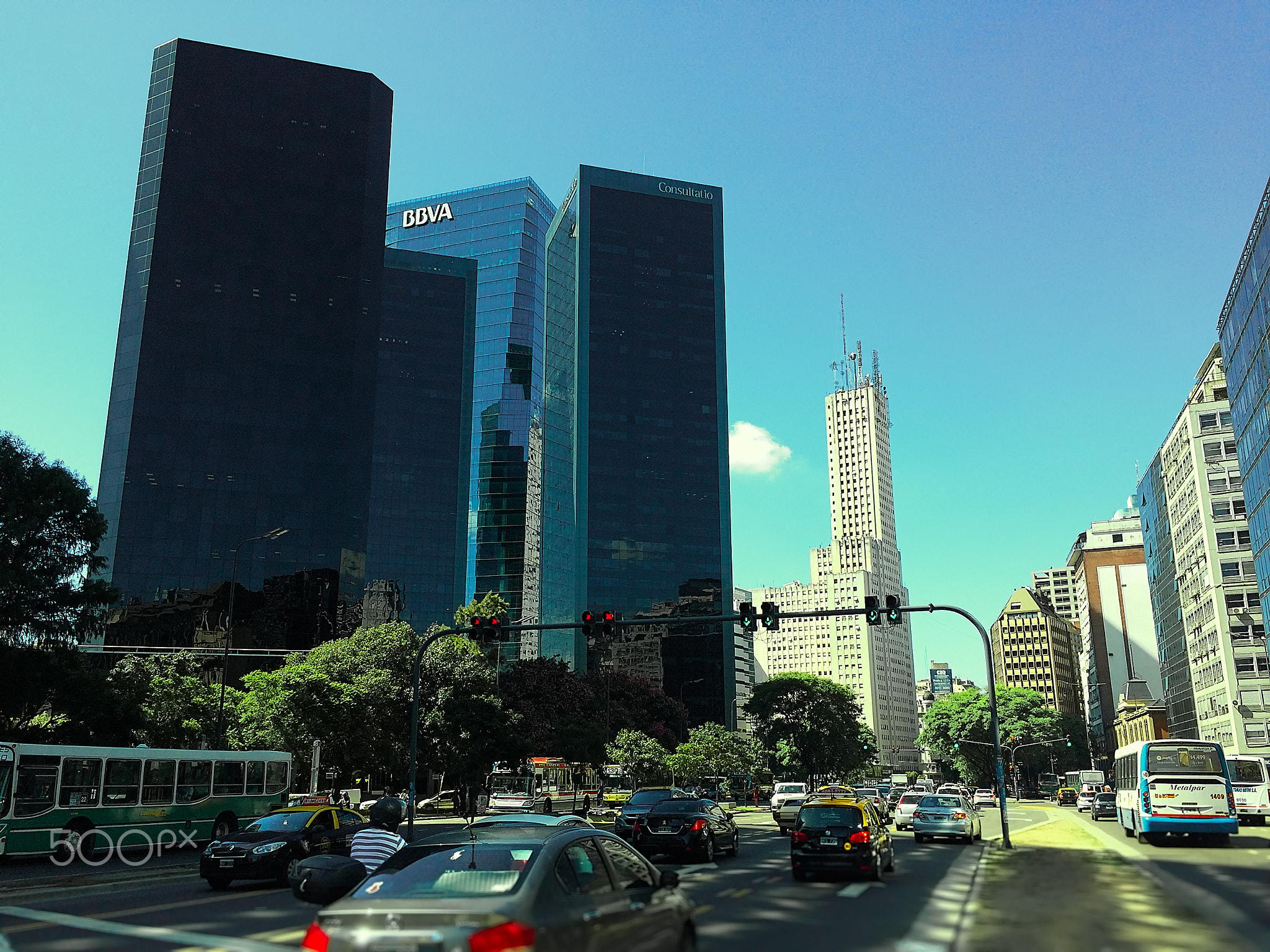 500px provided description: Alem Plaza, Buenos Aires [#sky ,#city ,#street ,#travel ,#blue ,#light ,#buildings ,#urban ,#architecture ,#cityscape ,#building ,#skyline ,#buenos aires ,#argentina ,#street photography]